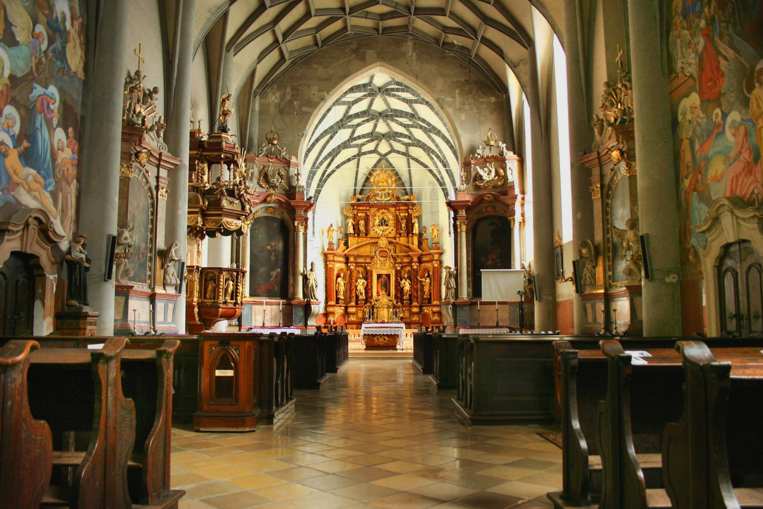 Hungary, Csongrad County, Szeged, Mathias Church interieur, baroque altar.